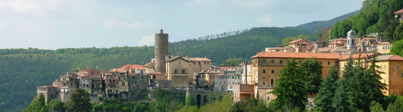 Nemi